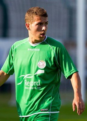 Kylian Hazard playing in 2014.